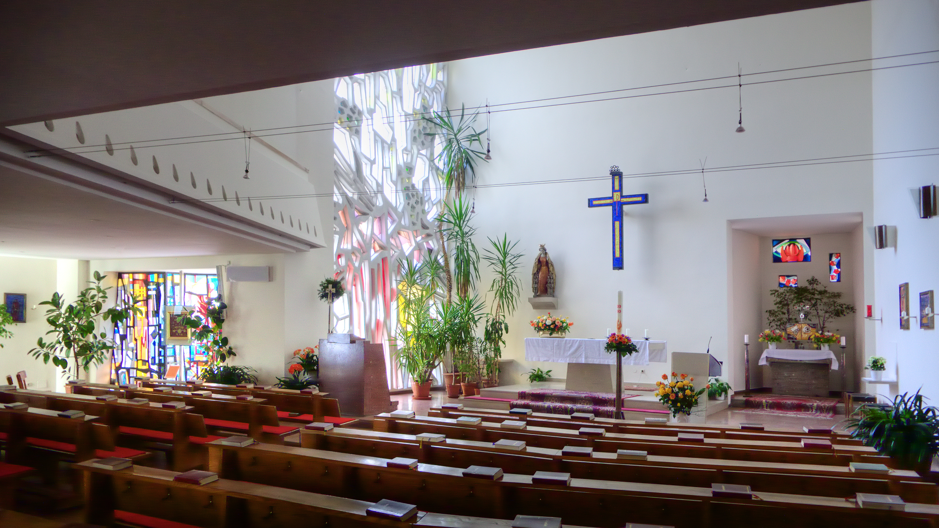 Church Pallottihaus (Wien) in Vienna Hietzing